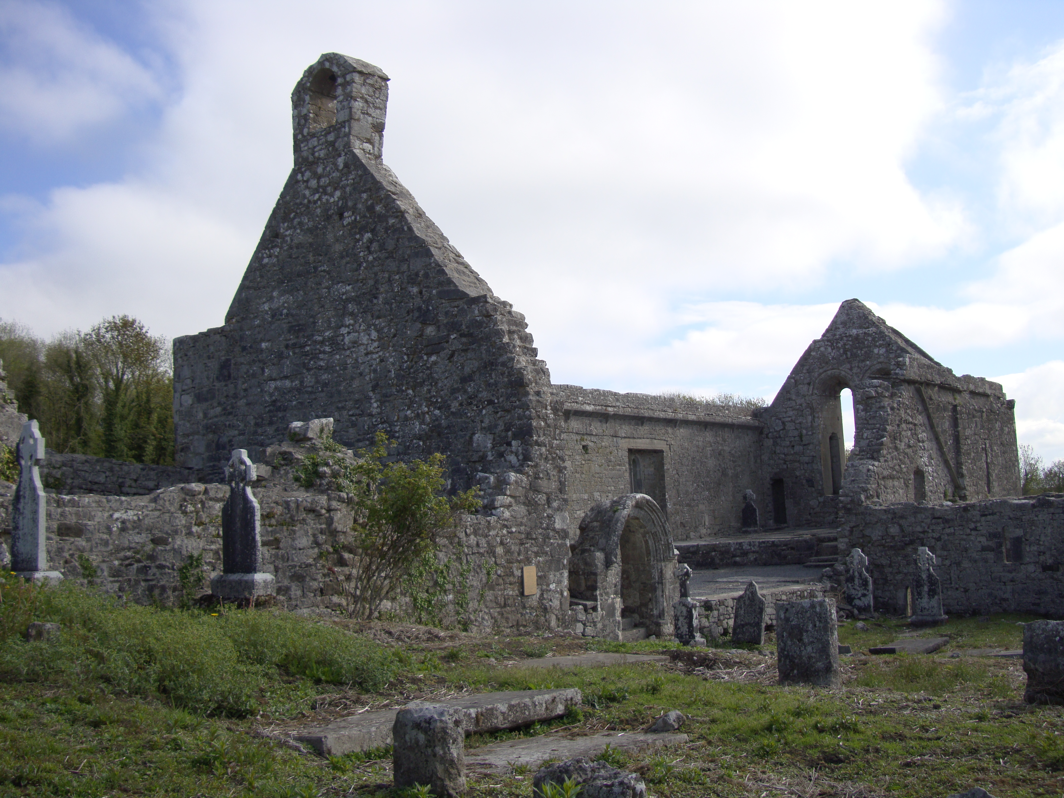 Photograph of the remains of Killone Abbey, Co. Clare, Ireland